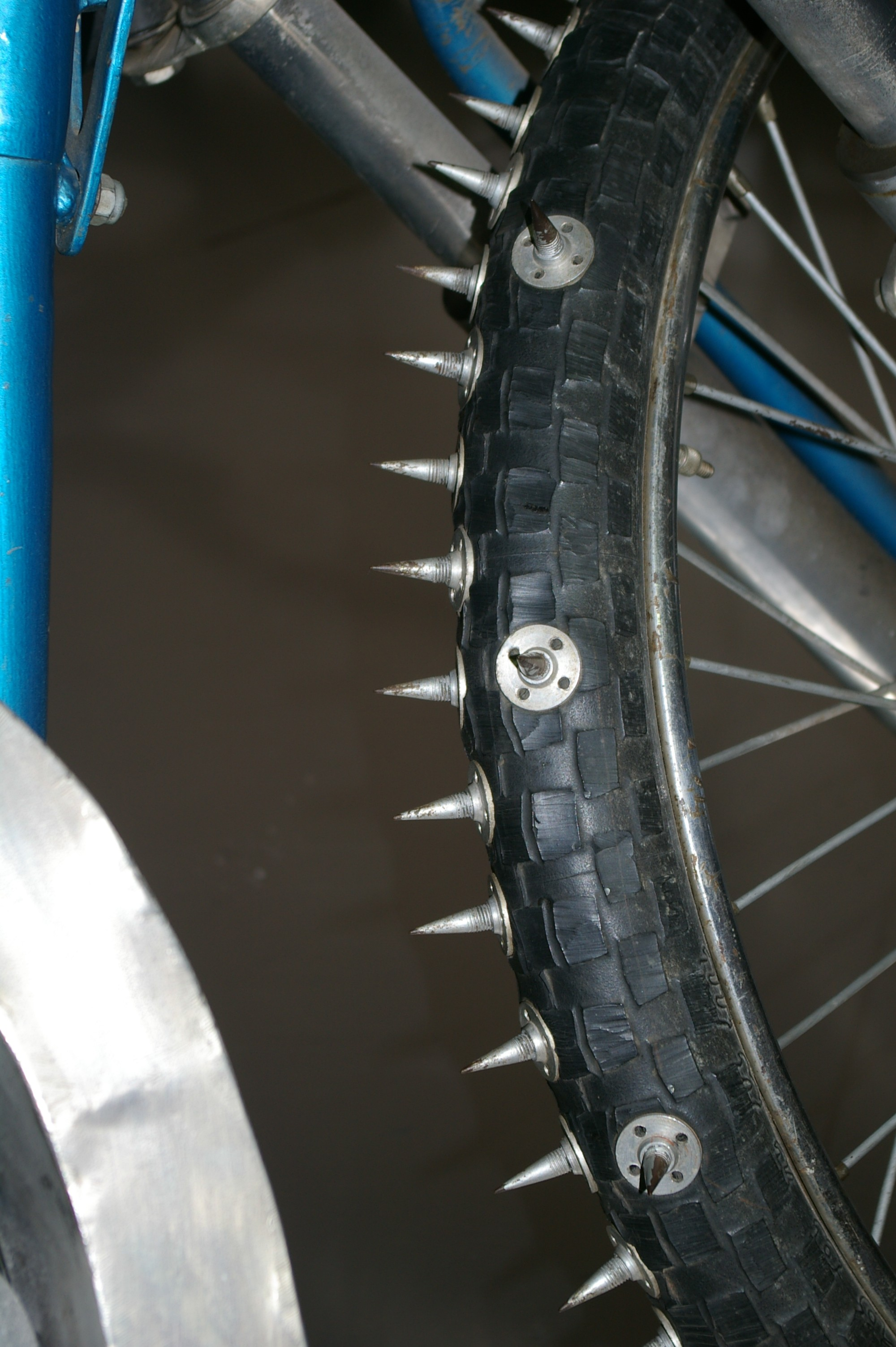 Close-up of a studded front tyre as used in Ice Speedway